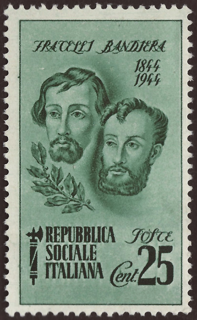 Stamp of the Italian Social Republic; 1944; commemorative stamp of the issue "100th anniversary of death of the Brothers Bandiera"; drawing of the faces of Attilio and Emilio Bandiera; mint stamp Stamp: Michel No. 663; Yvert & Tellier: No. 41 (RSI); Scott: No. 32 (RSI) Color: green Watermark: none Nominal value: 25 Cent. (Centesimi) Postage validity: from 6 December 1944 until 31 December 1945 date QS:P,+1944-00-00T00:00:00Z/8,P580,+1944-12-06T00:00:00Z/11,P582,+1945-12-31T00:00:00Z/11 Stamp picture size (printed area): 21.0 x 36.5 mm